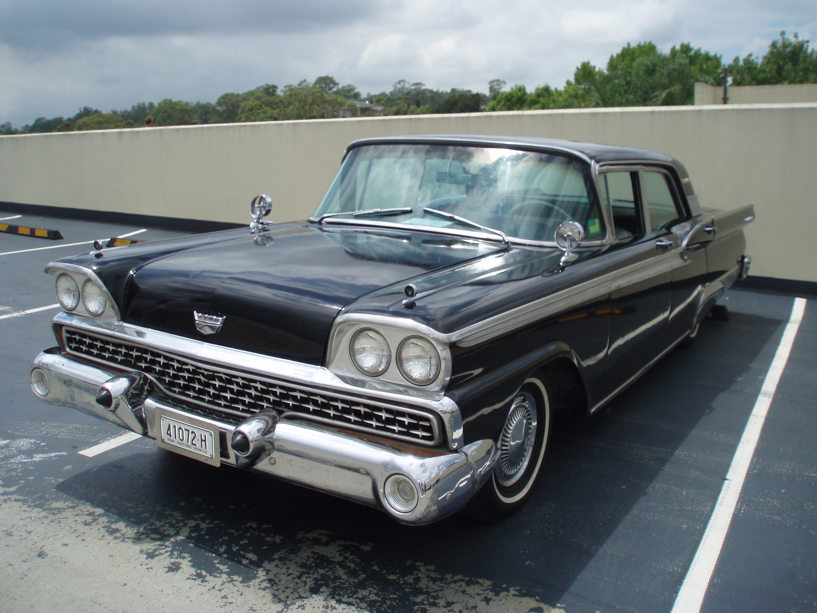 1959 Ford Fairlane 500 Galaxie sedan. Taken at the 2011 New South Wales All American Day, held at Castle Towers Shopping Centre, Castle Hill, Sydney.